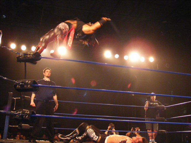 Mexican wrestler El Oriental performing a Moonsault during a match in Chikara